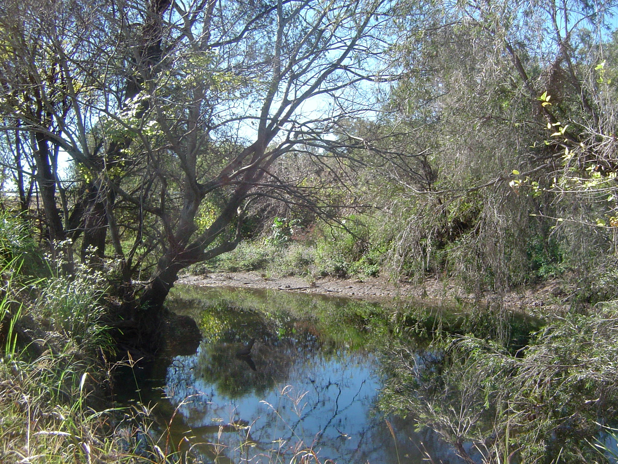 Upper Bremer River at Rosevale, Queensland, Australia